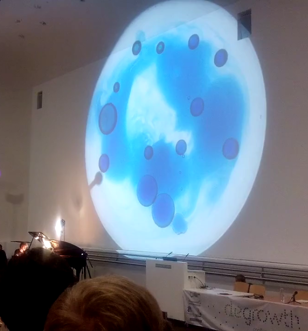 Degrowth/Metamorphosen. Screenshot from Video. Artist: Pablo Paolo Kilian